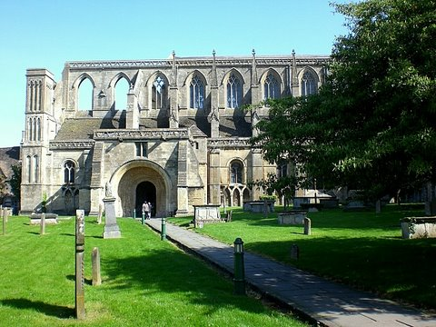 Malmesbury Abbey